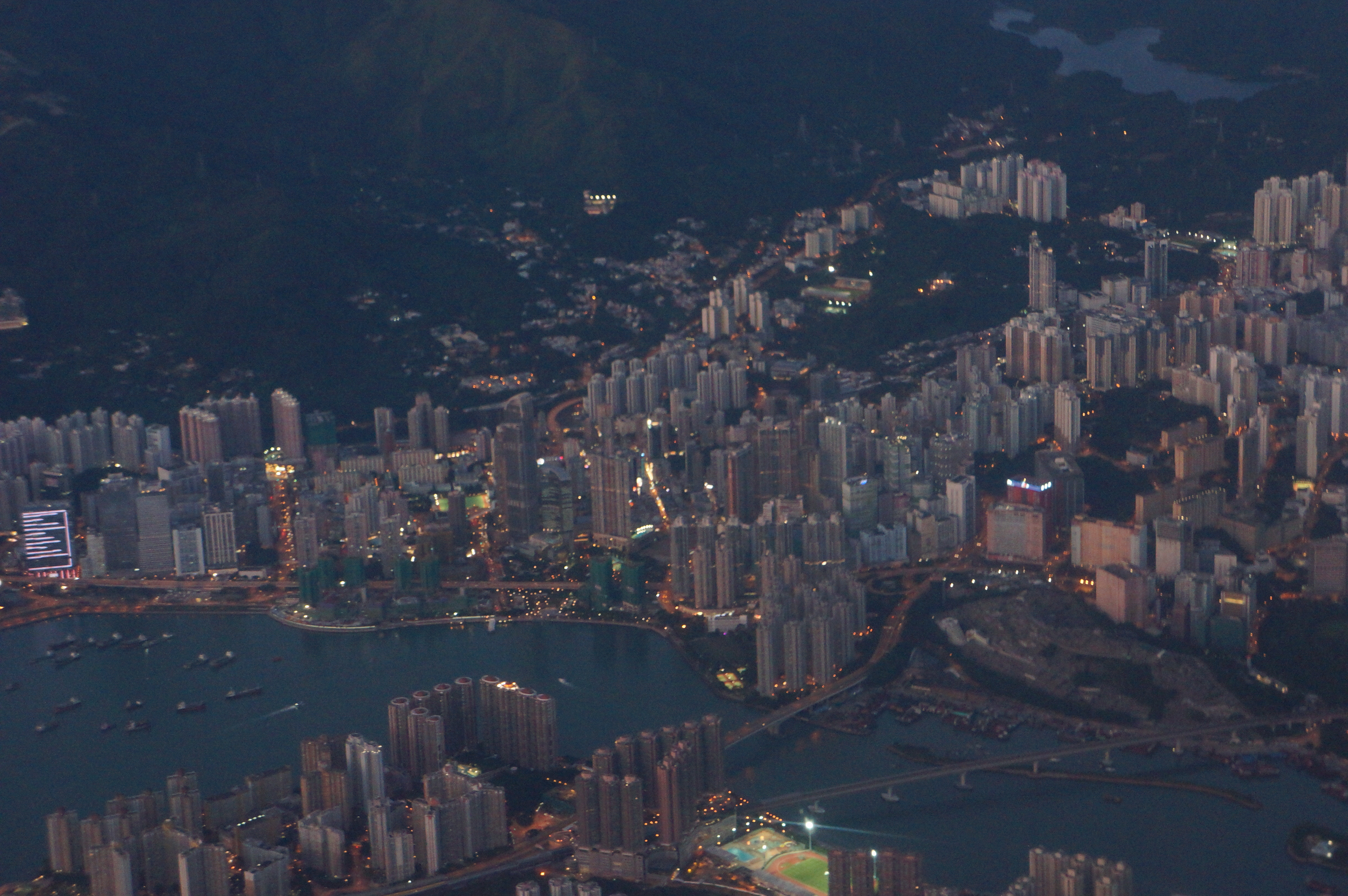 201610 Aerial photographs of Tsuen Wan